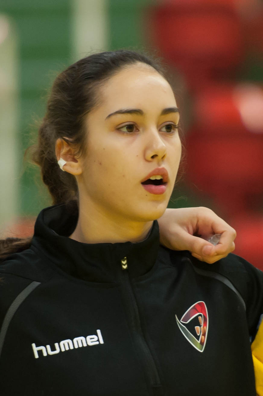 2015 World Women's Handball Championship Qualification 2014-12-06: Patricia Rodrigues